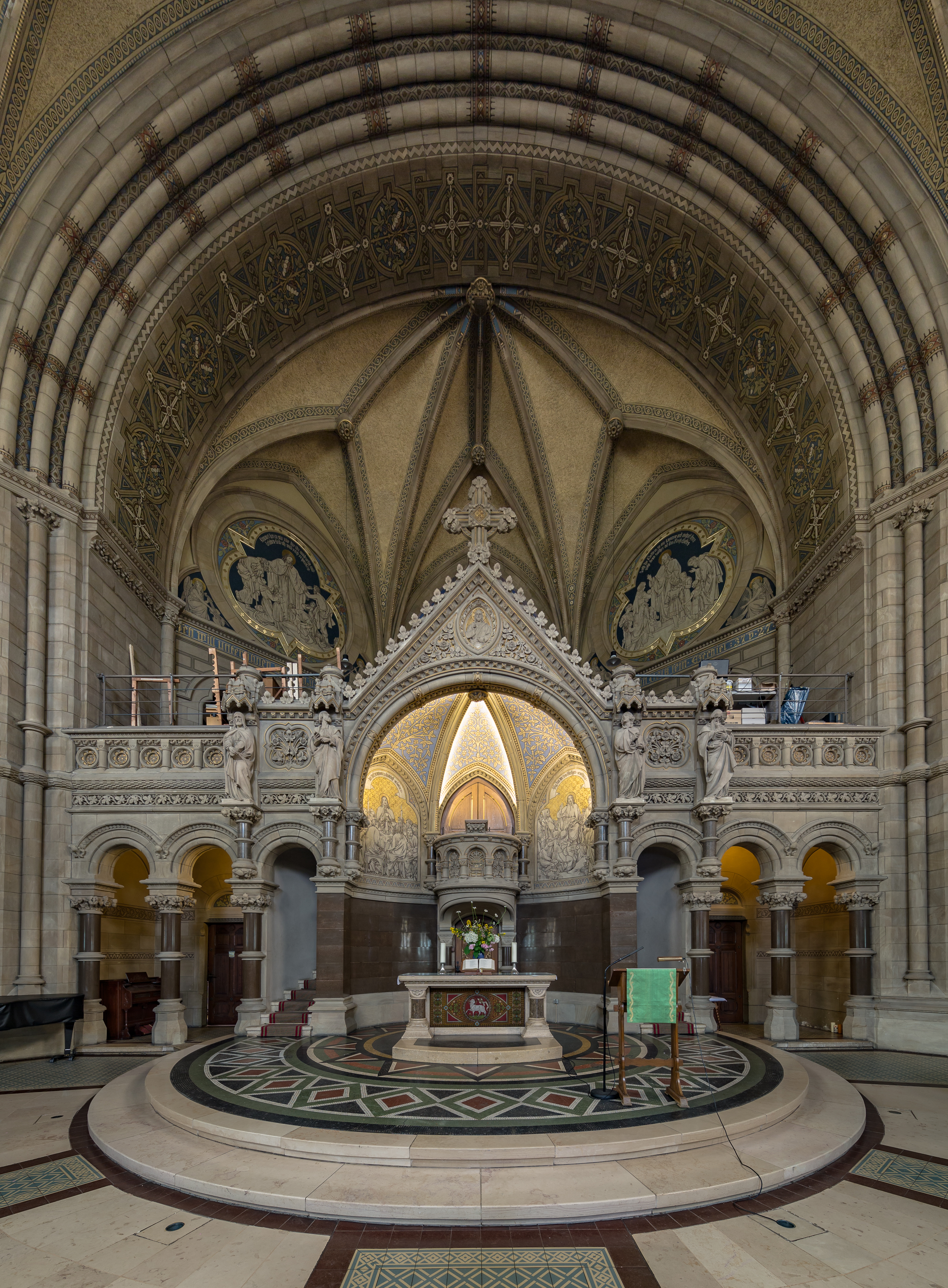 Altar of the Ringkirche in Wiesbaden.